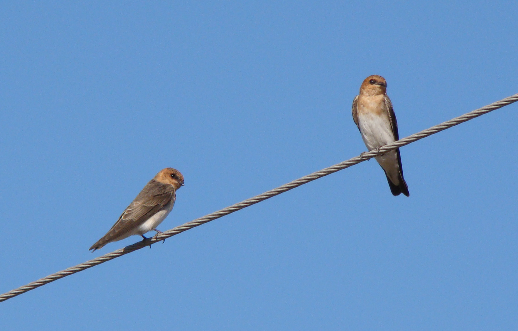 Alopochelidon fucata photographed in Rio Grande do Sul, Brazil, in May 2009.